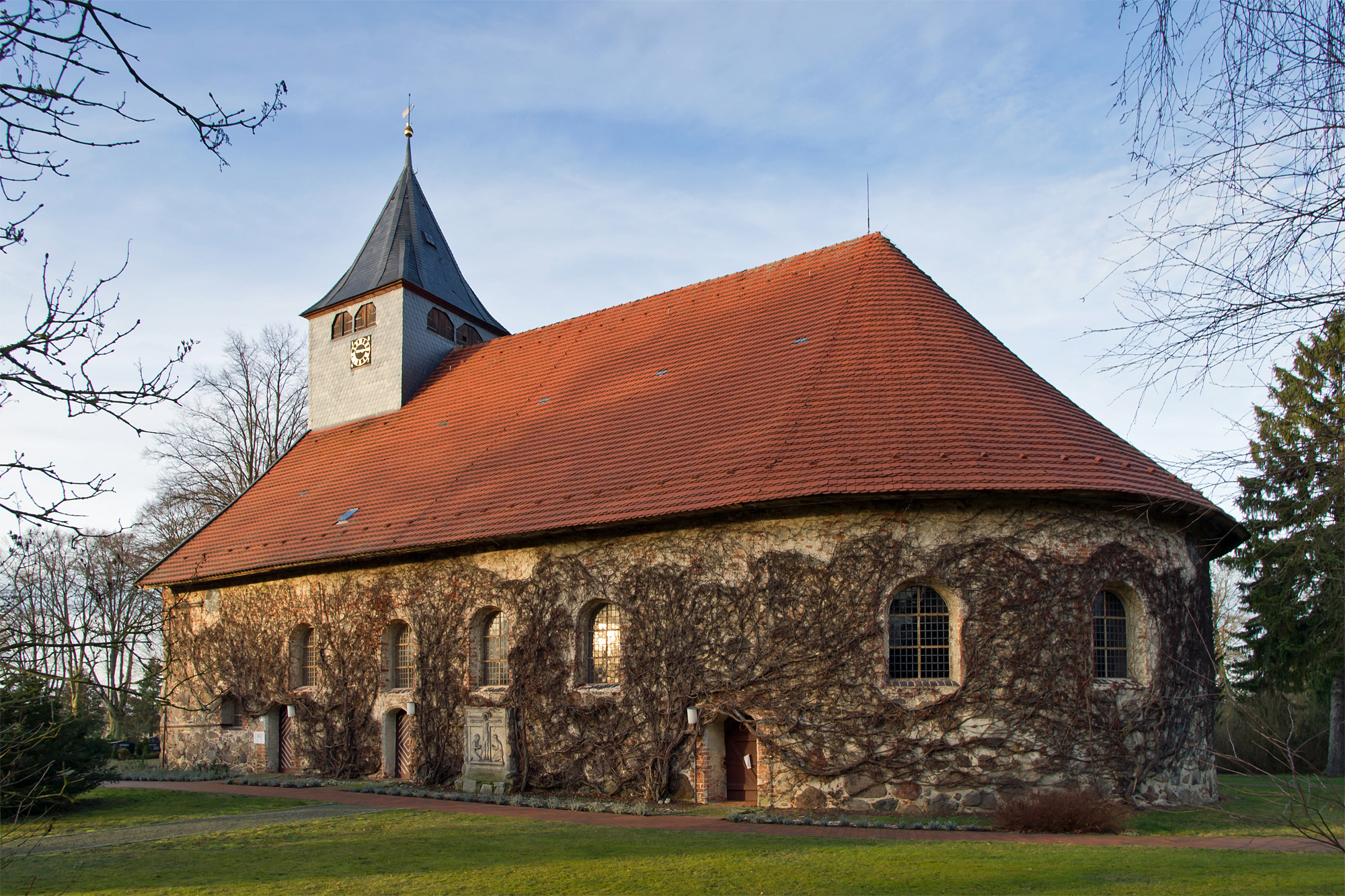 Church of the village Trebel (district Lüchow-Dannenberg, northern Germany).